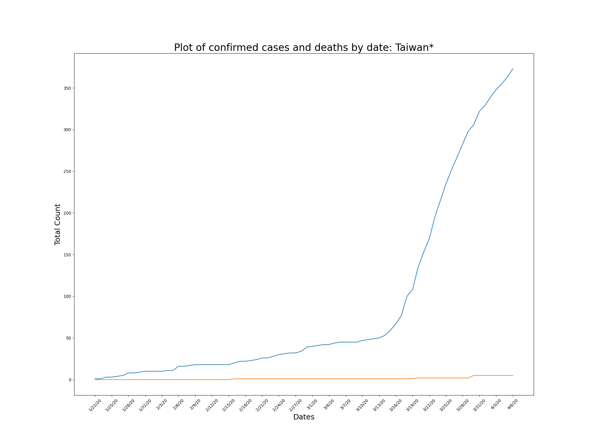 COVID 19 confirmed vs death Cases in Taiwan*